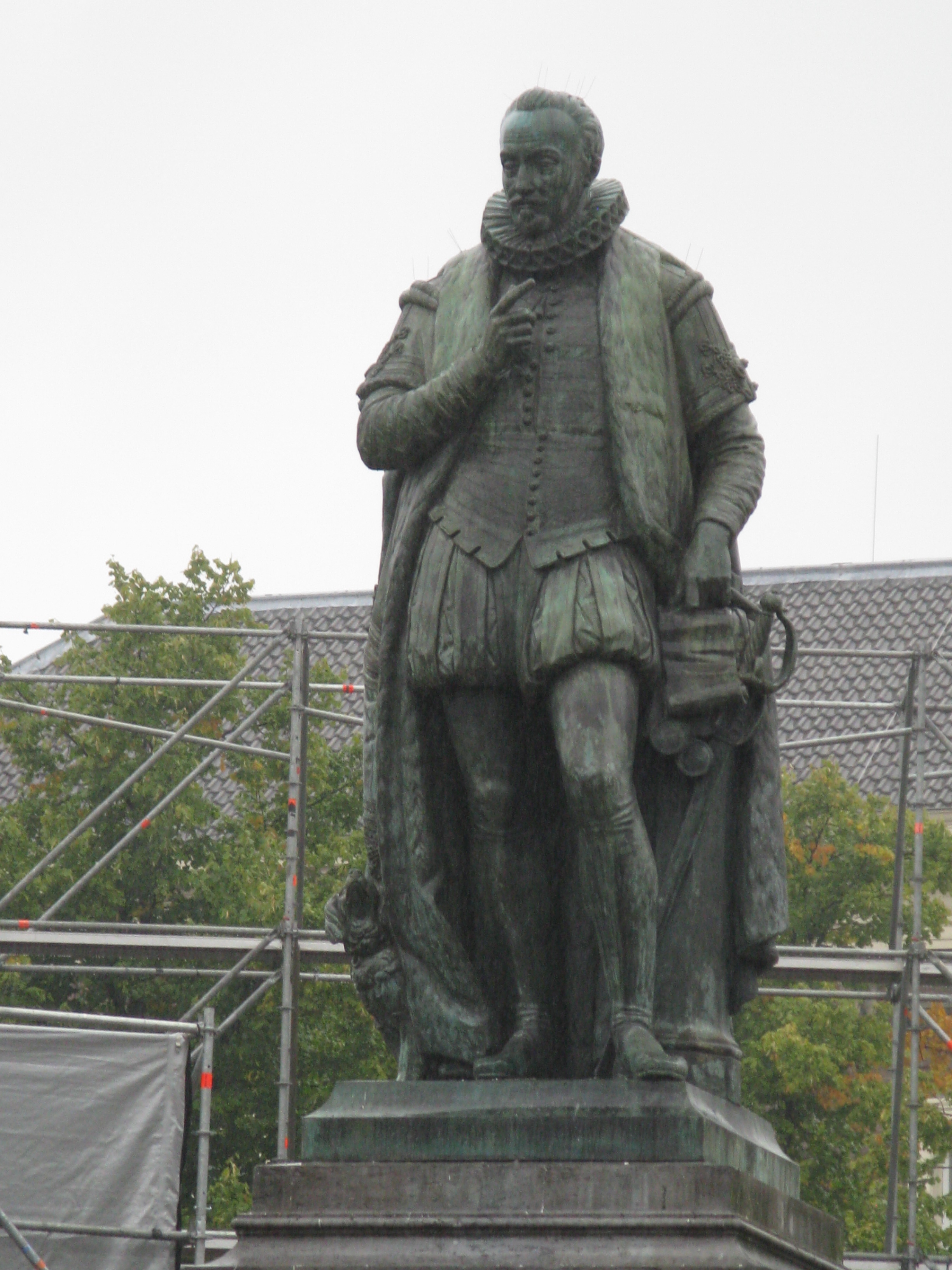 Statue of William the Silent by Louis Royer in Hague.